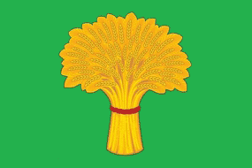 Flag of Kansk, Krasnoyarsk Territory, Russia